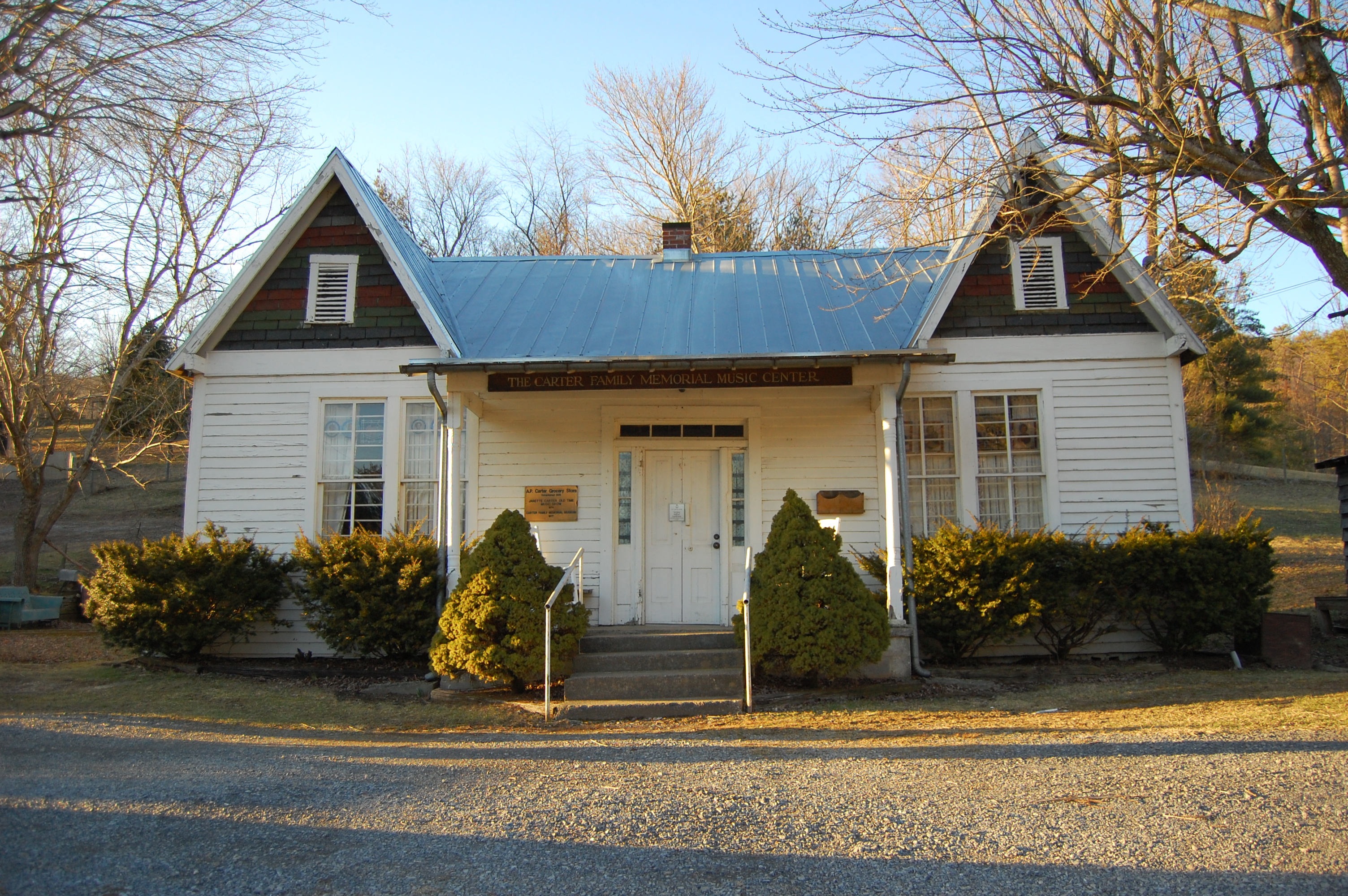 Carter Family Fold - Hiltons, VA Photo by Amy C Evans, SFA oral historian February 2009